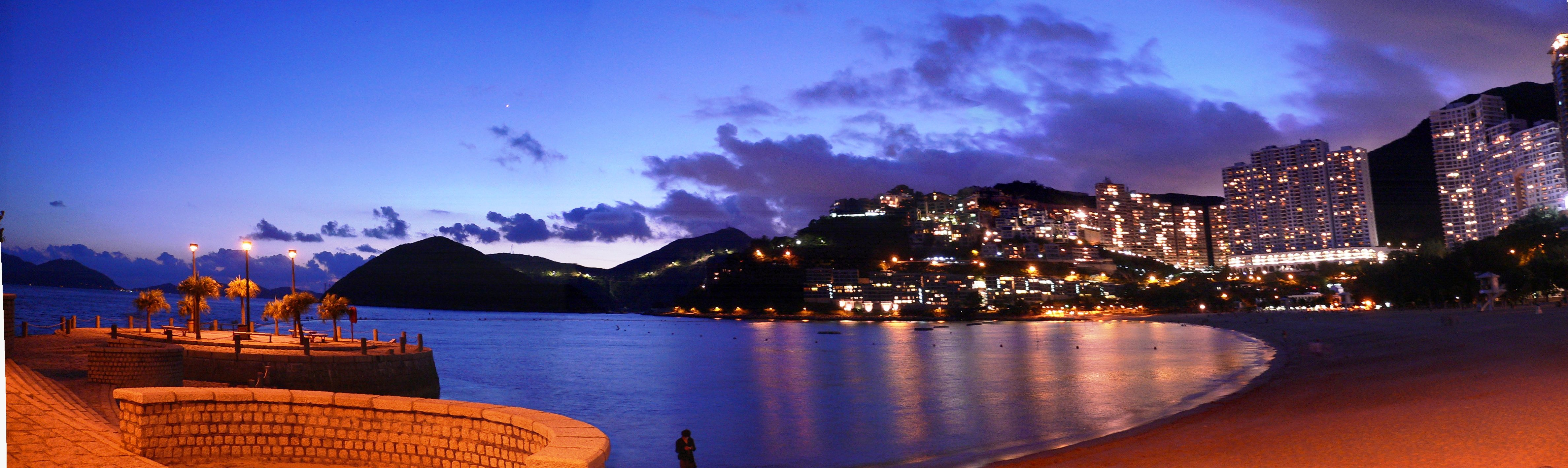 Panoramic view of Repulse Bay